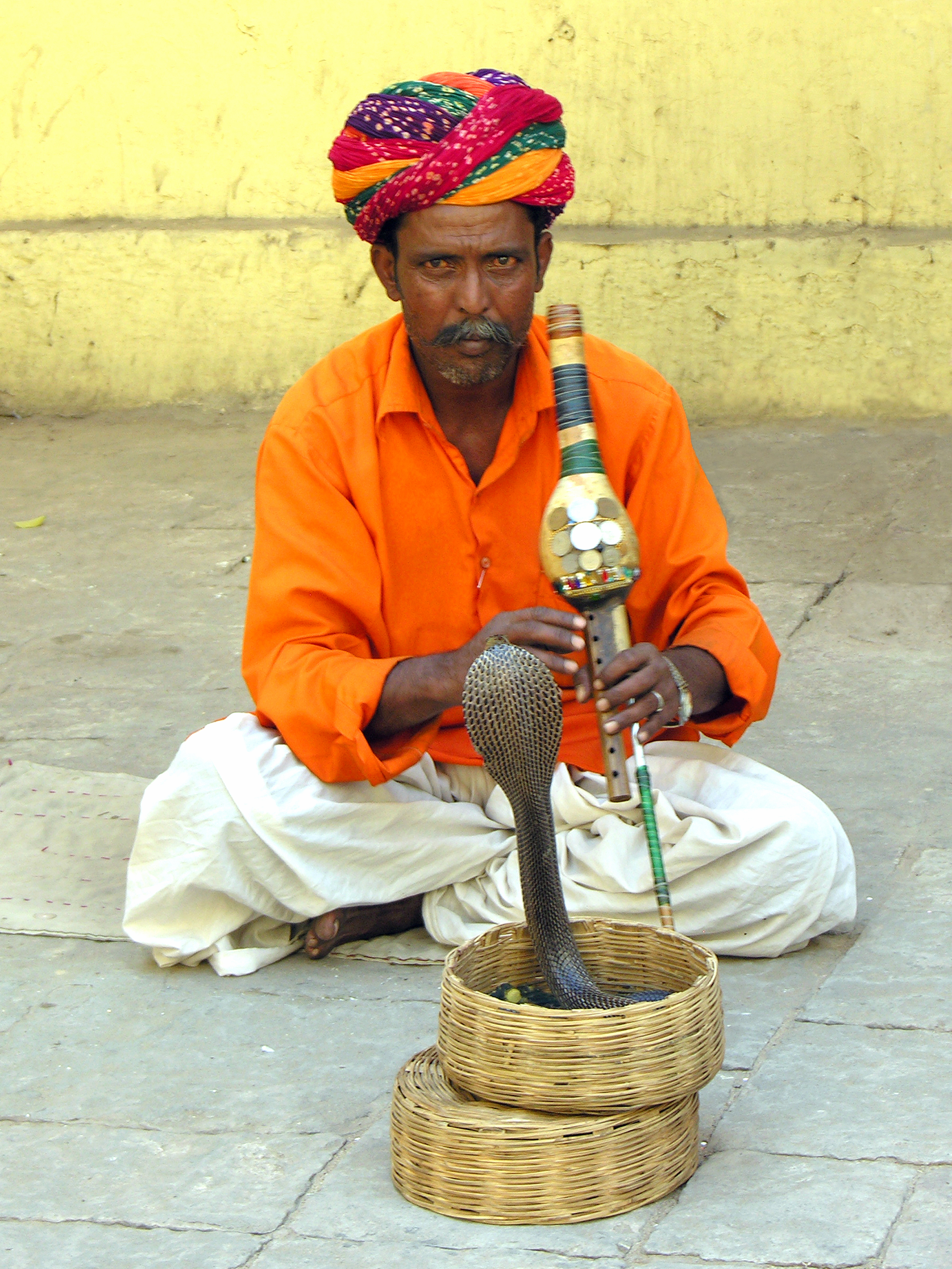 PLEASE, no multi invitations, glitters or self promotion in your comments, THEY WILL BE DELETED. My photos are FREE for anyone to use, just give me credit and it would be nice if you let me know, thanks - NONE OF MY PICTURES ARE HDR. Snake charmers are all over India. Standing erect and extending the hood is a normal defensive reaction for a cobra and simply indicates the startled reaction to leaving the darkened basket or box. The snake’s swaying is actually a reaction to the movement of the charmer's instrument and sometimes the tapping of his foot. The snake cannot actually hear the music, but it may feel some of the sound vibrations and any tapping done by the charmer. Most snakes are actually timid and prefer to scare off predators rather than fight them, which explains the reluctance to attack. Snake charmers reduce the chance of being bitten by sitting just out of striking range, about one-third of a cobra’s body length. What may appear as a dangerous feat to kiss the creature on its head is in fact nearly harmless, as cobras are not capable of attacking anything above them. The snakes container plays a large part in subduing the animal, as it keeps the snake’s blood temperature down and makes it groggy. The snake returns to its container simply by the snake charmer stopping his waving motion.